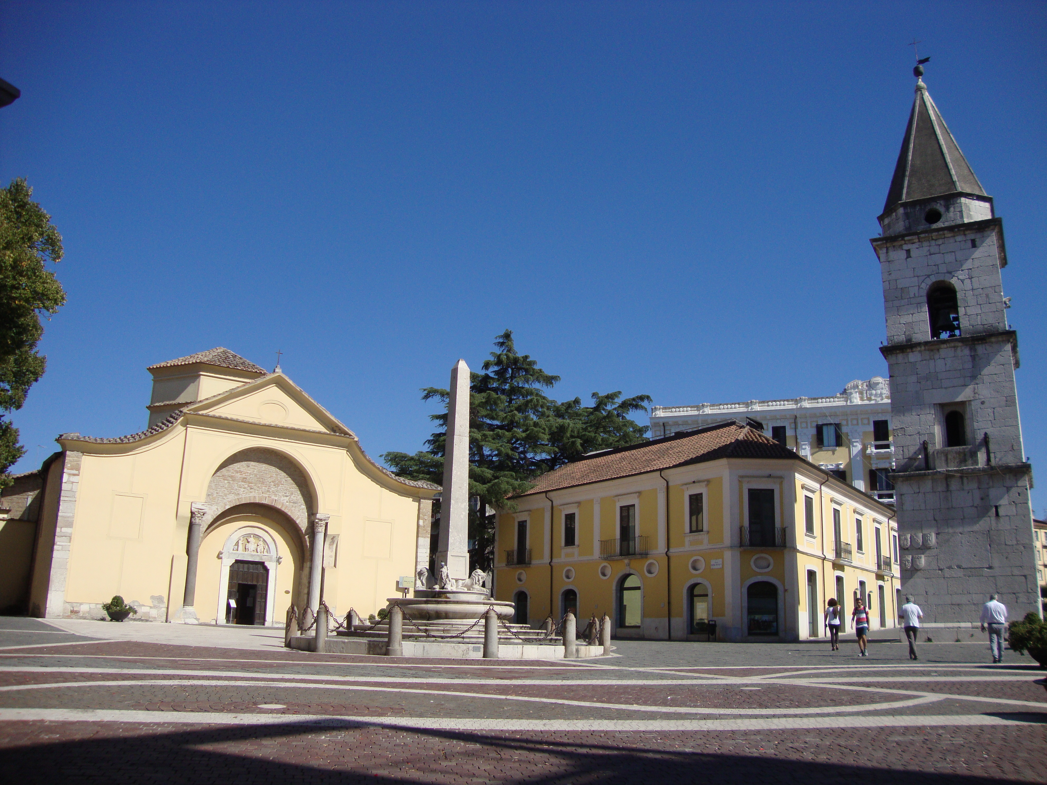 Photograph of the Piazza Santa Sofia in Benevento, Italy, dd. 2015-09-22